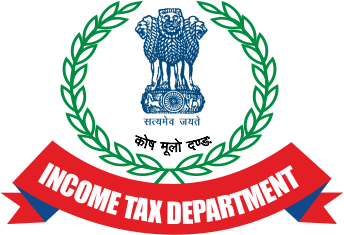 Sanskrit phrase कोष मूलो दण्डः (Kosh Muloo Dand) as appearing in Kautiliyan Arthshastra means that the treasury is foundation of administration.